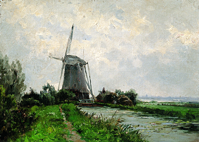 Paisaje de Holanda, artwork by Spanish painter Carlos de Haes (1829-1898)